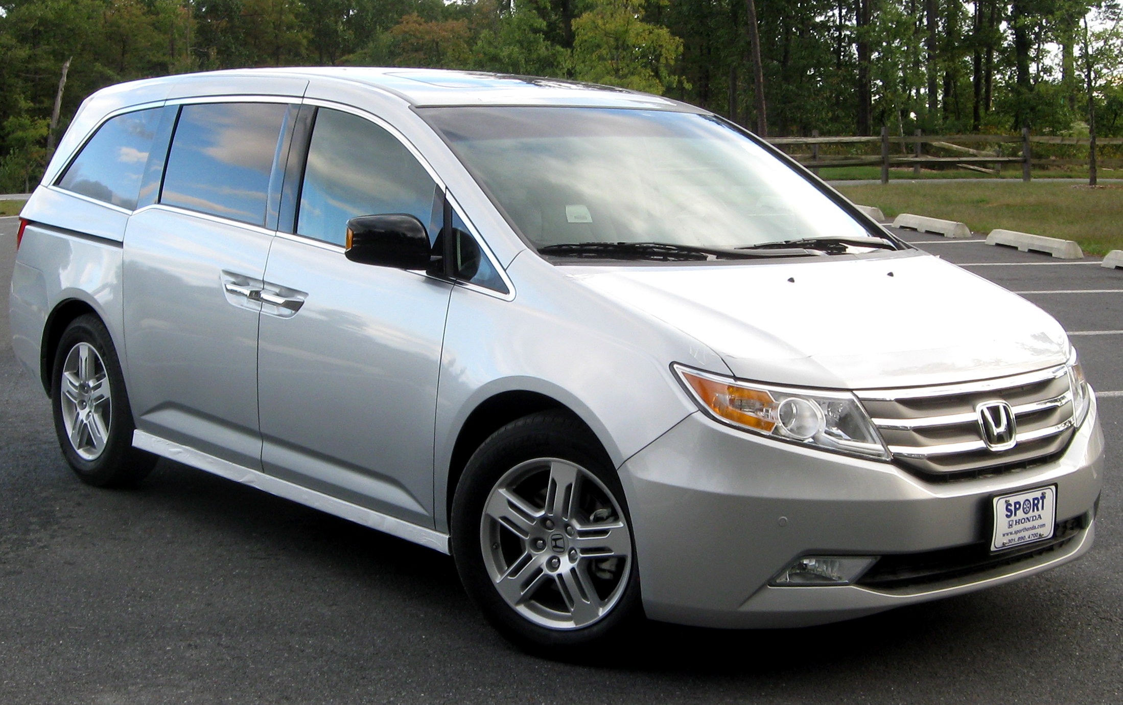 2011 Honda Odyssey photographed in Silver Spring, Maryland, USA.